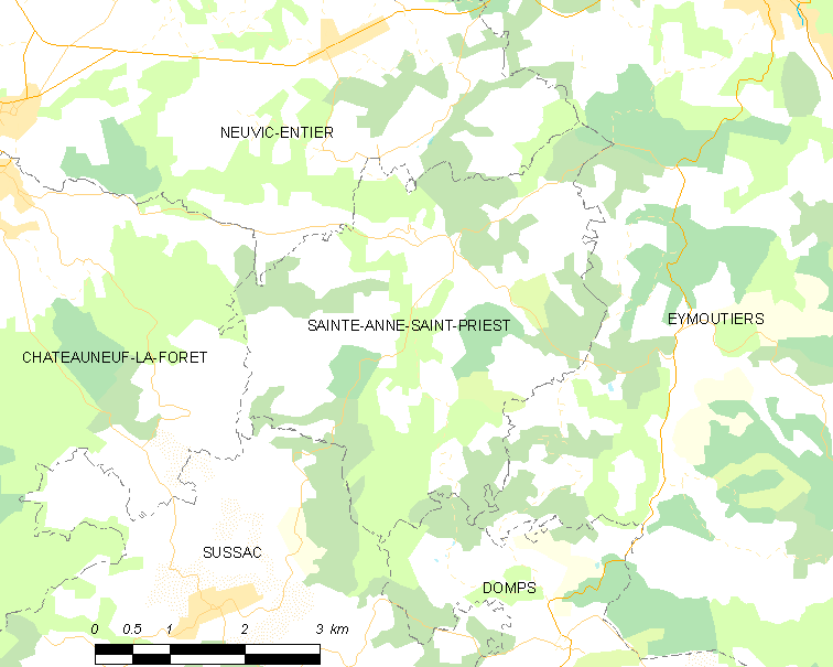 Map of French municipality Sainte-Anne-Saint-Priest